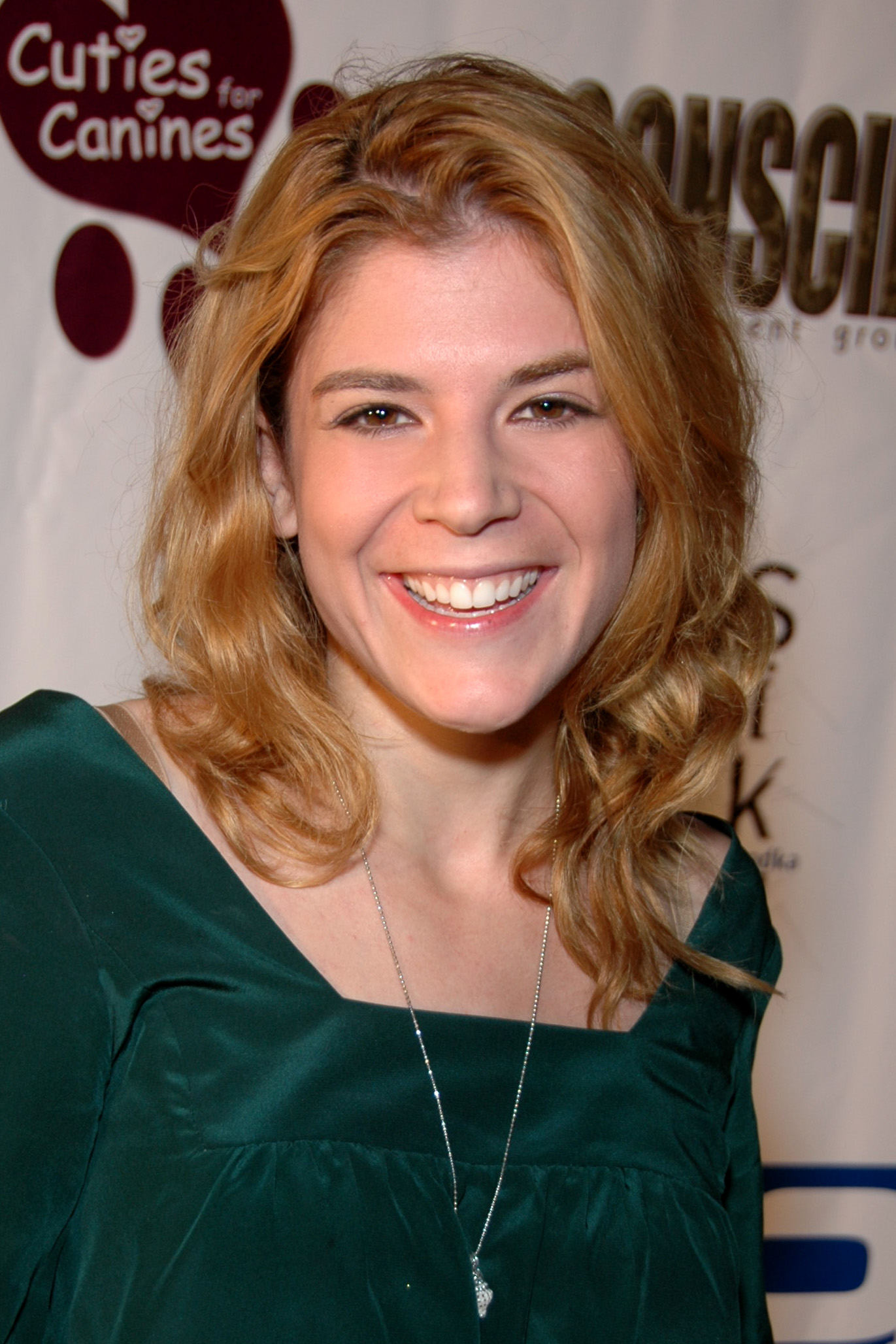 Robin Sydney attending the "Cuties for Canines" charity event, West Los Angeles, CA on 11/16/2007 - Photo by Glenn Francis of